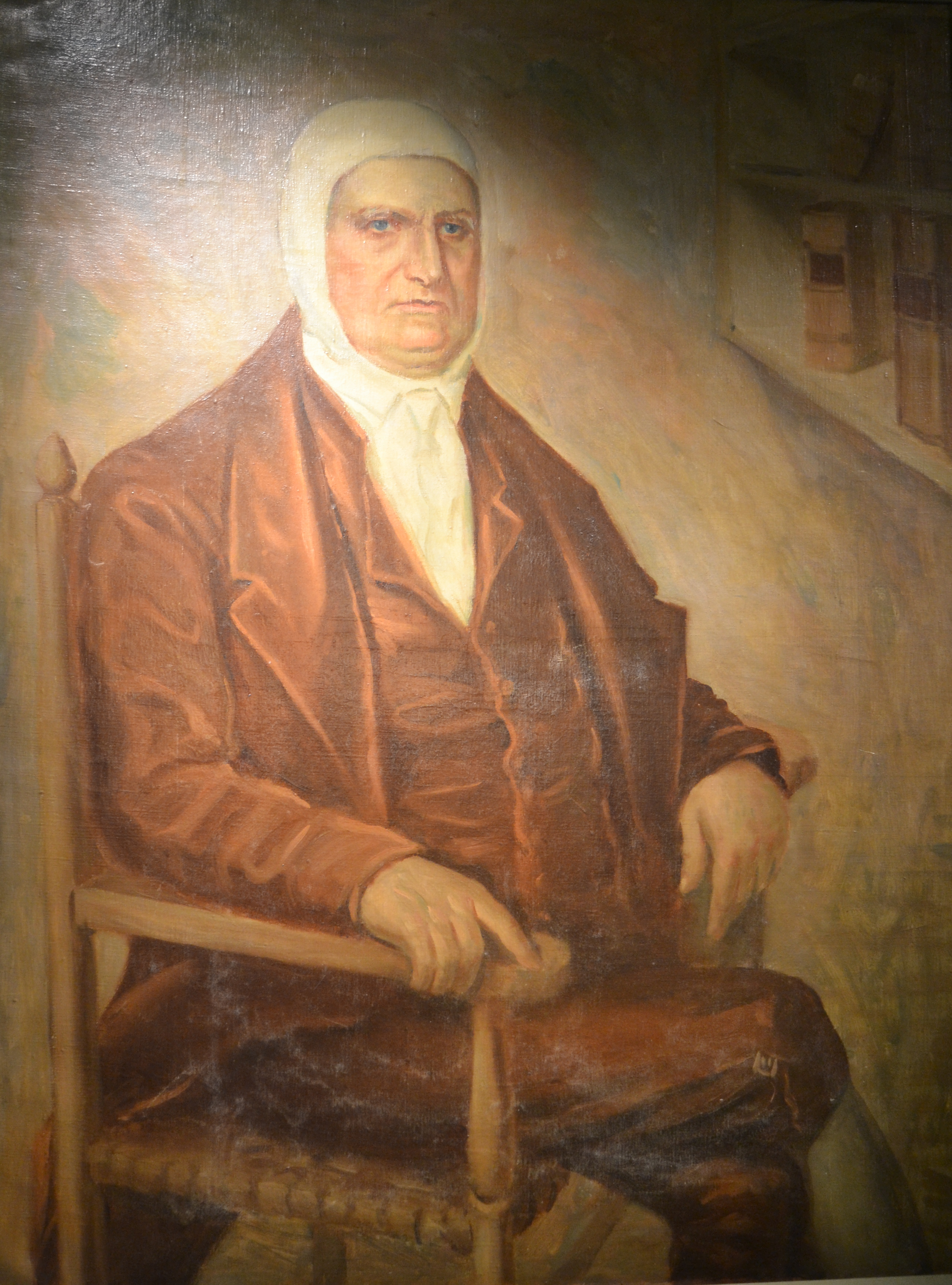 Portrait painting of Samuel Doak Sr